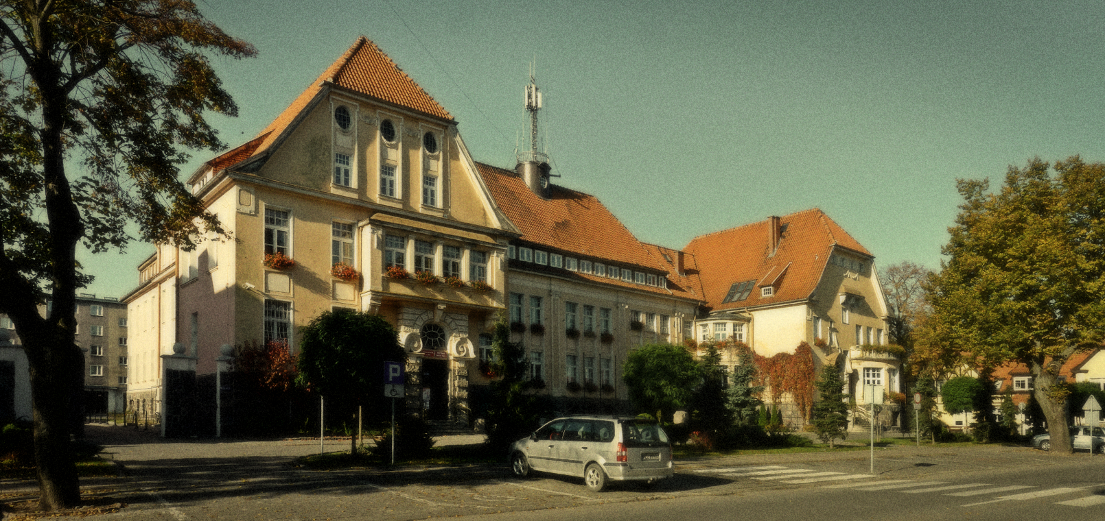 Ełk's authorities building - Piłsudskiego St. - October 20, 2012